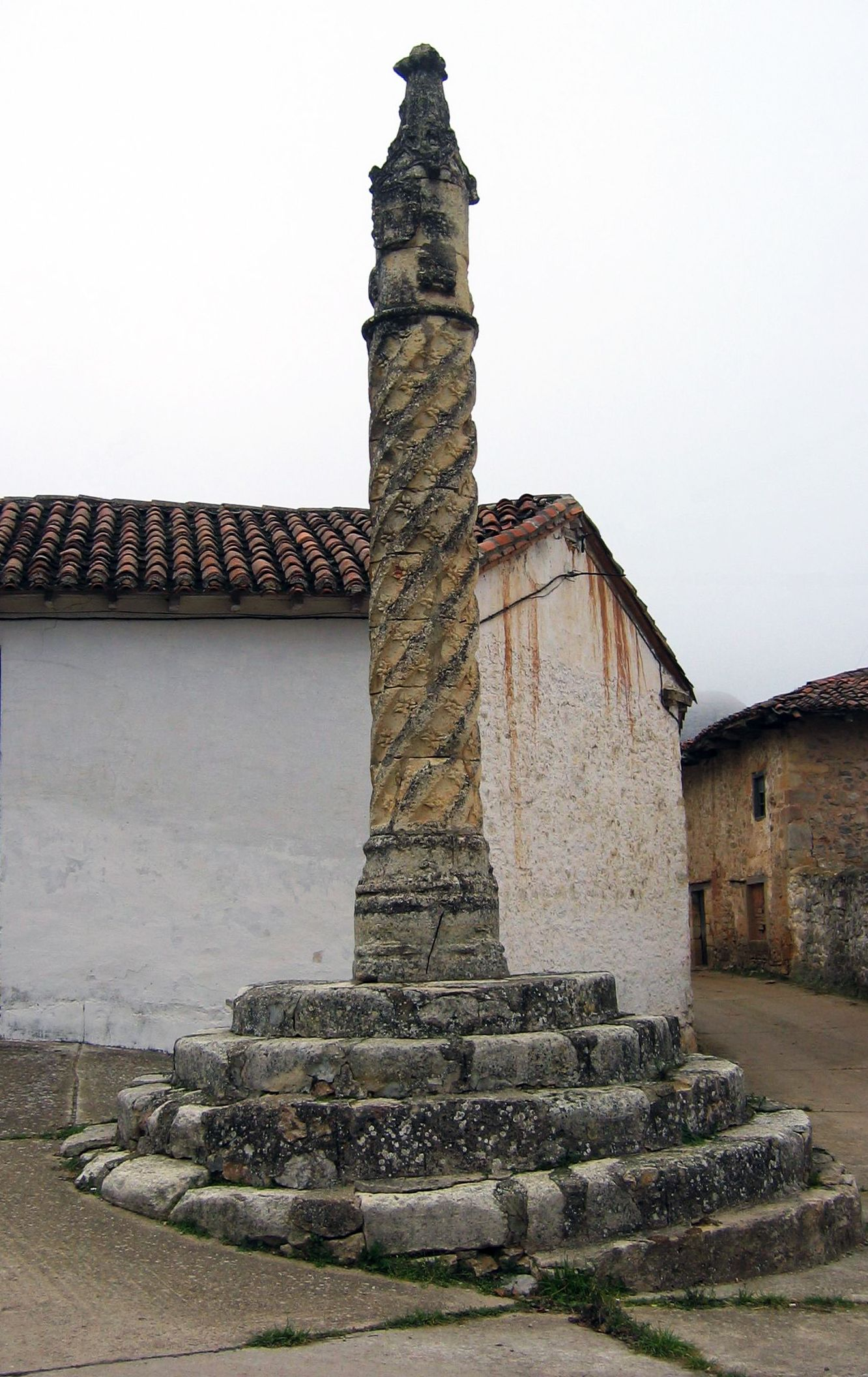 Rollo jurisdictional in Barrio de San Pedro in Becerril del Carpio (Palencia, Castile and León). Declared as cultural interest monument on 18 February 1960.